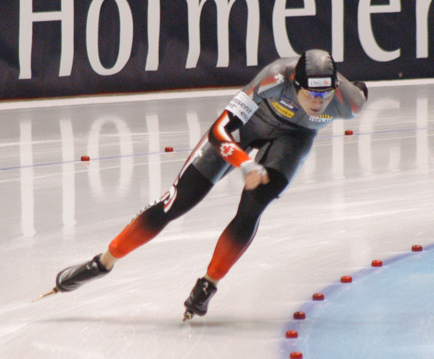 Kristina Groves (CAN) at a World Cup speedskating in Heerenveen (NED)